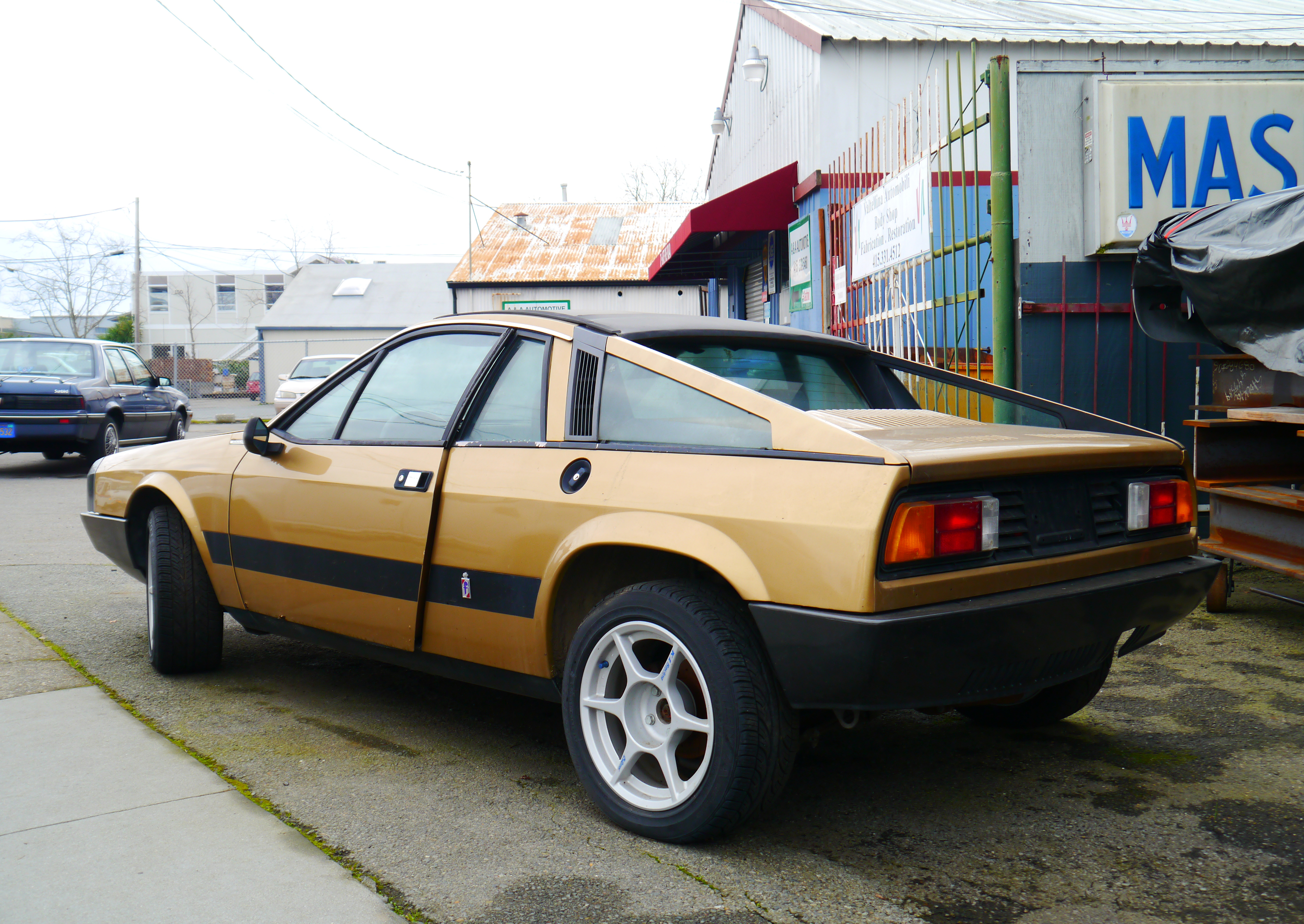 1980-1981 Lancia Montecarlo. First I thought it was a Scorpion (US-Market version - the name Monte Carlo was already used in America by Chevrolet) but it did not have the US-spec bumpers. Then I hesitated about its origin as the space for the rear licence is square but the European models had that too.